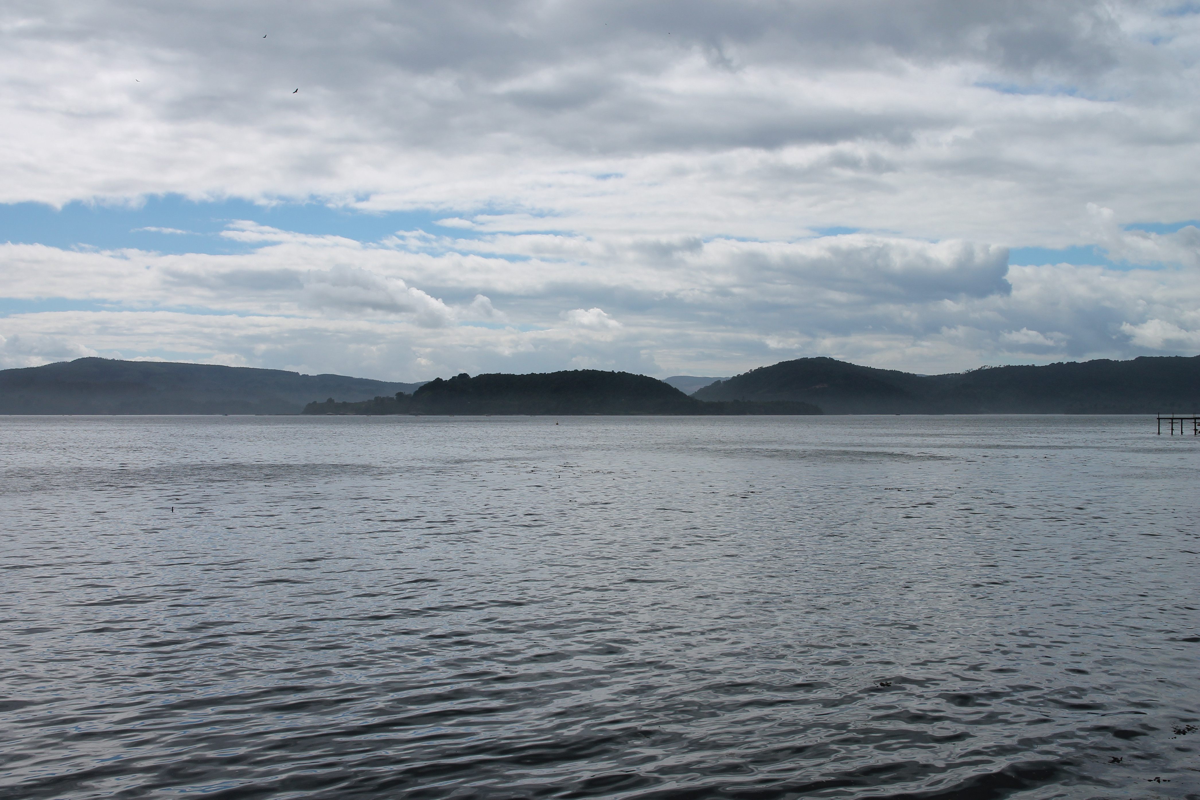 Corral